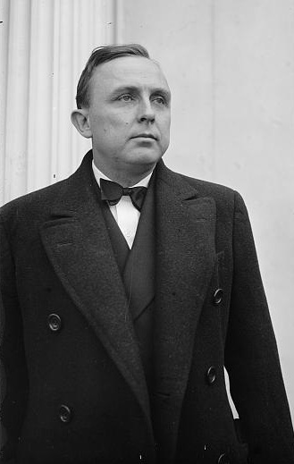 Governor-elect E.D. Rivers was at the White House today where he discussed Georgia's problems with President Roosevelt. December 22, 1936.